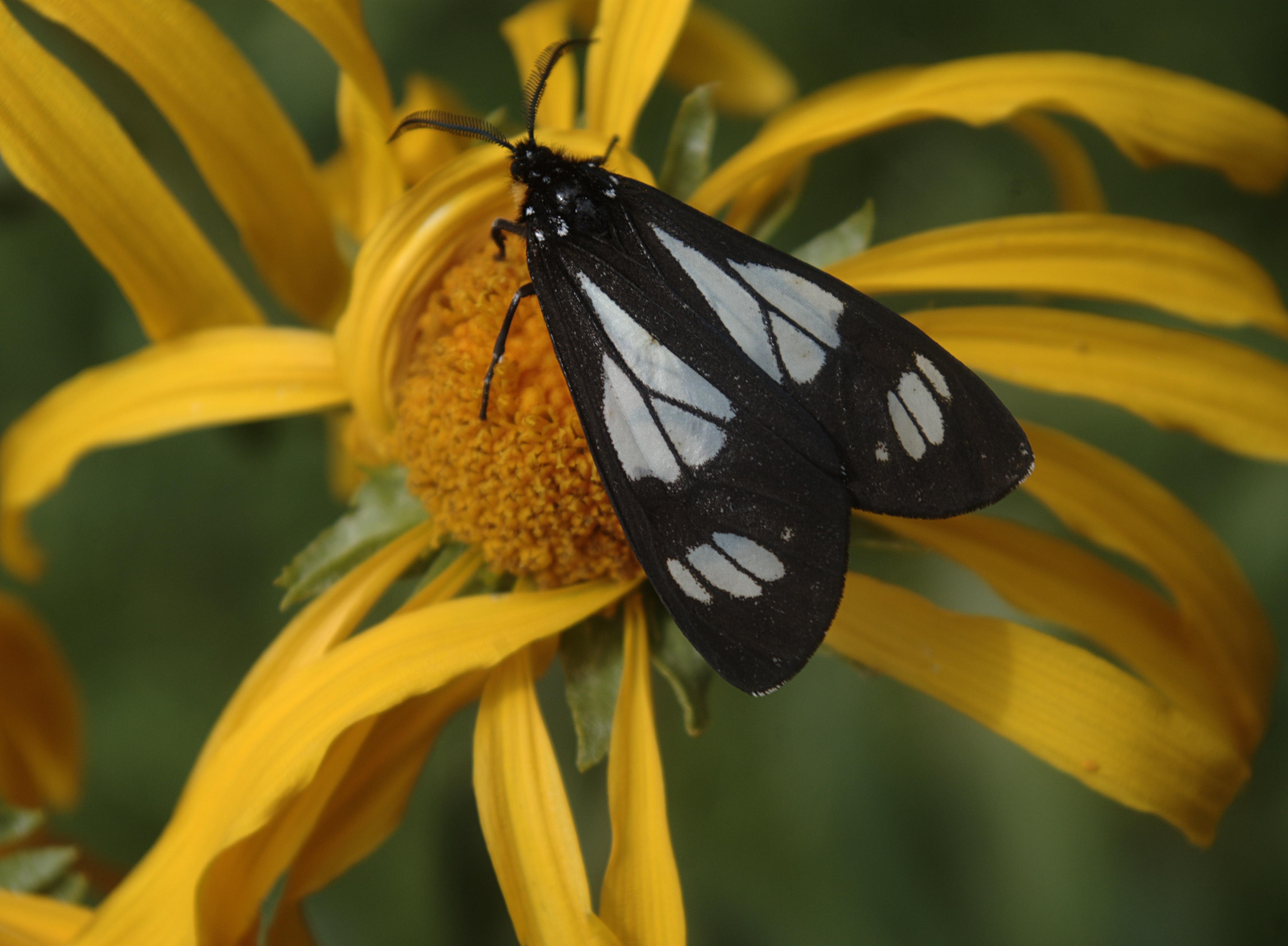 Gnophaela vermiculata, Police-Car Moth, on flower of Hymenoxys hoopesii, Orange Sneezeweed, meadow near Santa Fe Ski Basin, Santa Fe National Forest, Santa Fe, New Mexico.